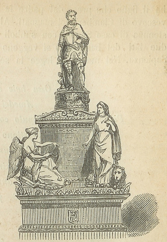 Engraving of the Monument in honour of Emmanuel Philibert placed into the Chapel of the Holy Shroud, in Turin.